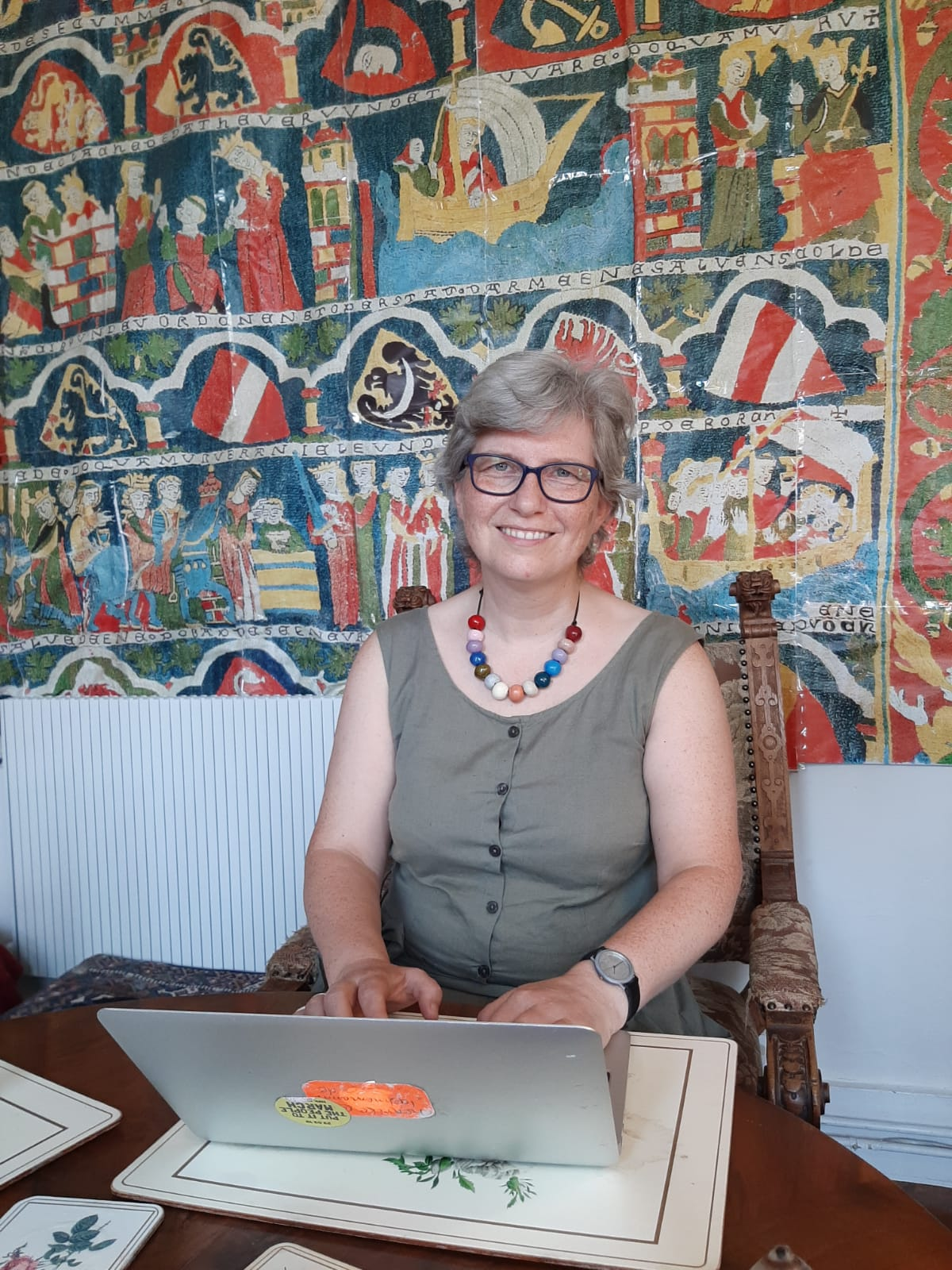 Henrike_L